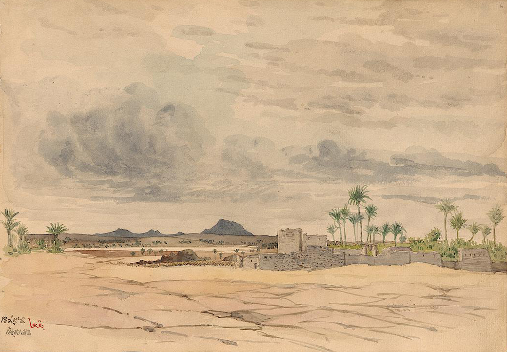 Painting of Baq`a' town by Julius Euting